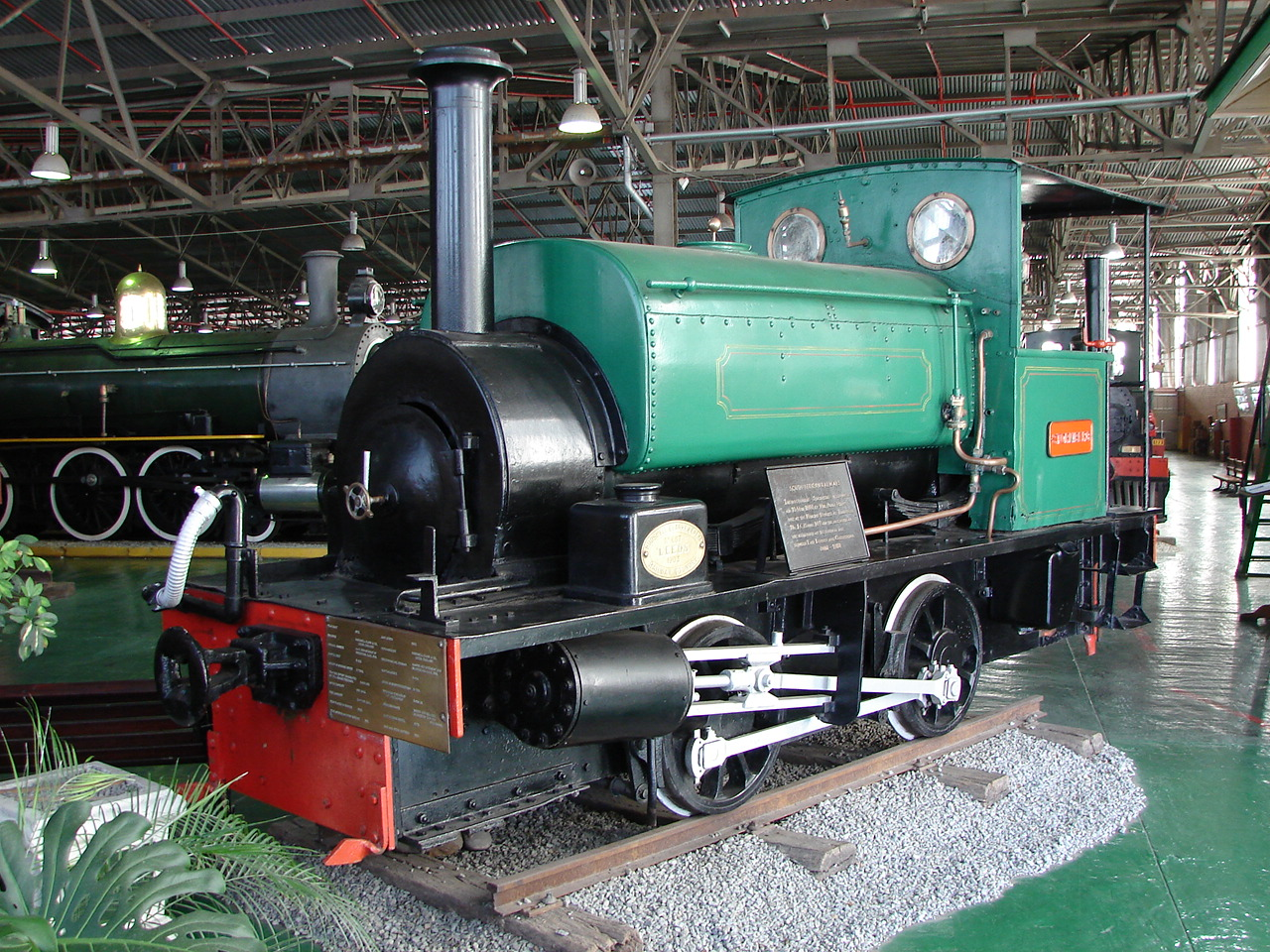 SAR Harbour locomotive "Stormberg" (0-4-0ST) Location: George, Western Cape Harbour shunters "Thebus" and "Stormberg" were not classified or numbered by the SAR. They were built by Hudswell, Clarke and Co. Ltd. in 1903, works numbers 686 and 687, and were acquired by the SAR from the Public Works Department in 1916.